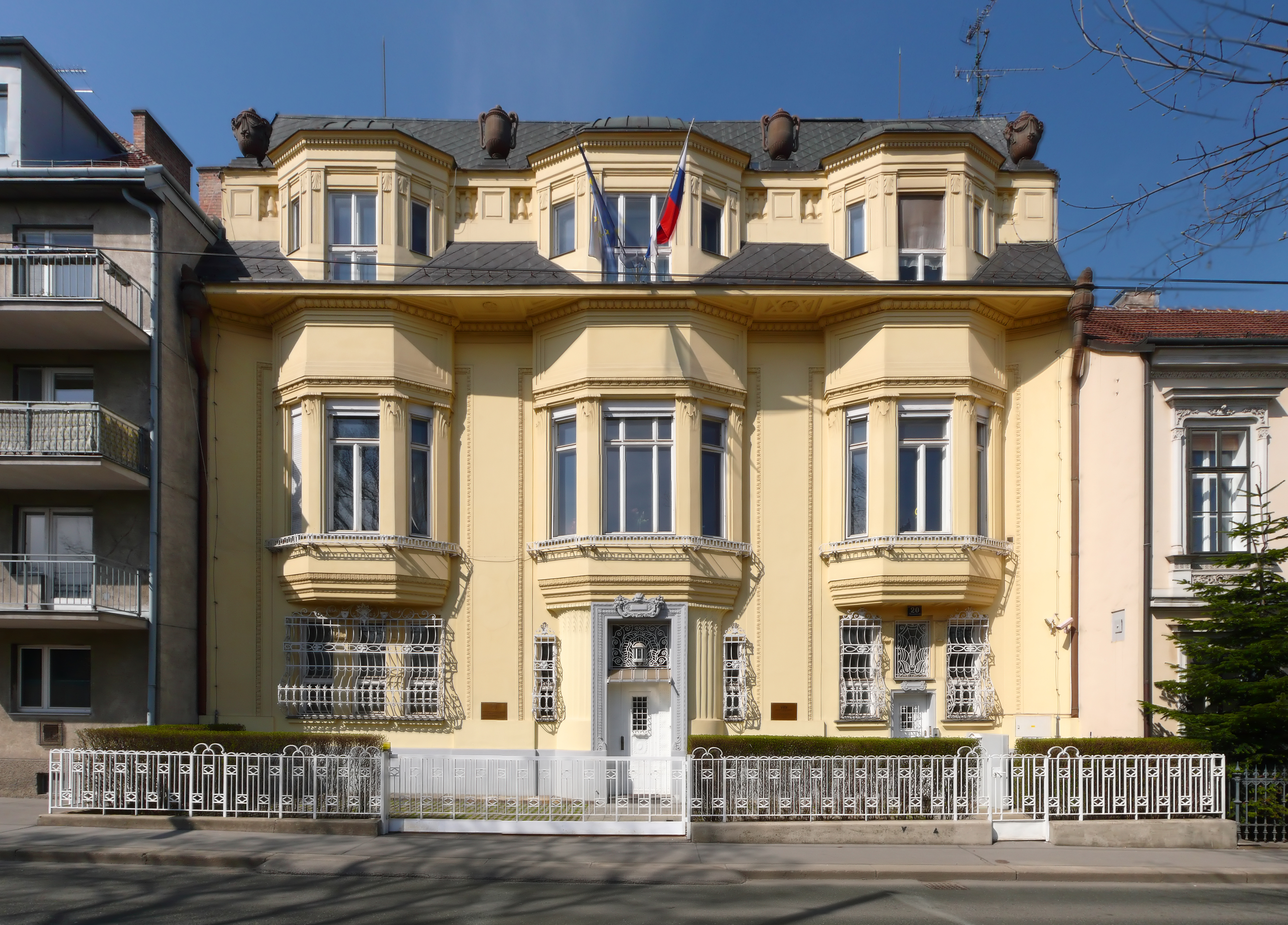 Villa Siegfried Trebitsch in Vienna Hietzing